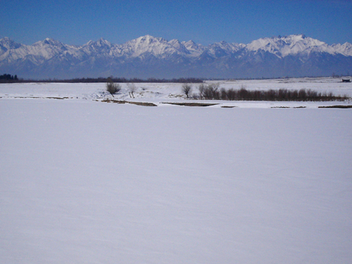 Irkut River near the rural locality of Zaktuy in Tunkinsky District of the Buryat Republic, Russia.